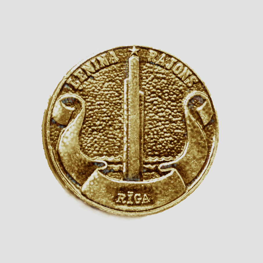 Badge. Leninsky district. Riga. Latvian SSR. 1985.